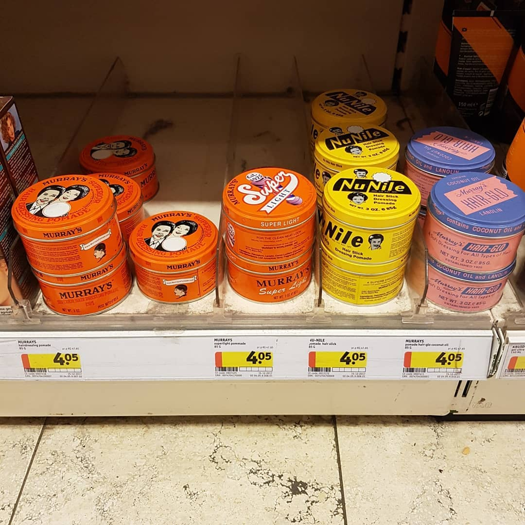 A range of Murray's products in a Dutch drugstore. Left to right: Murray's Superior, Murray's Super Light, Nu Nile, Murray's Hair-Glo.